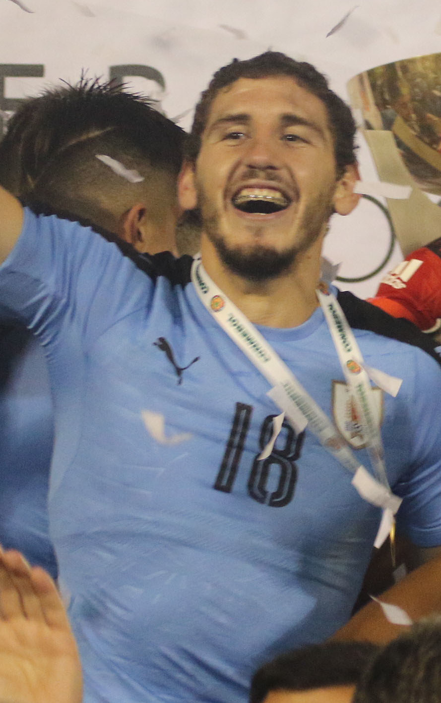 PREMIACIÓN CAMPEONATO SUDAMERICANO SUB 20